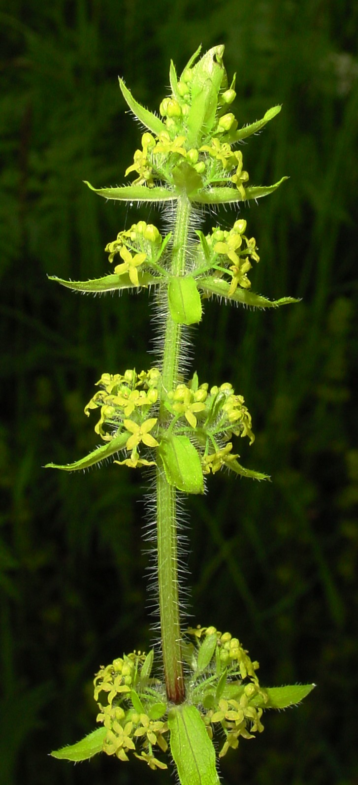 Cruciata laevipes - Crosswort - Smooth Bedstraw.